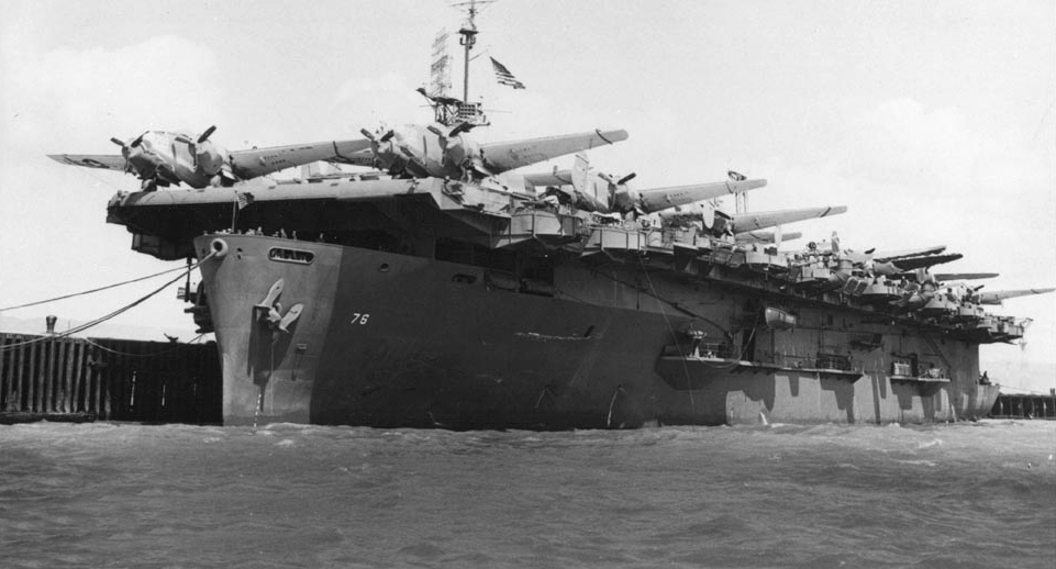 The U.S. Navy escort carrier USS Kadashan Bay (CVE-76) at San Francisco, California (USA), on 8 April 1945. She is painted in Camouflage Measure 21. Several Lockheed PV patrol bombers are carried on deck.